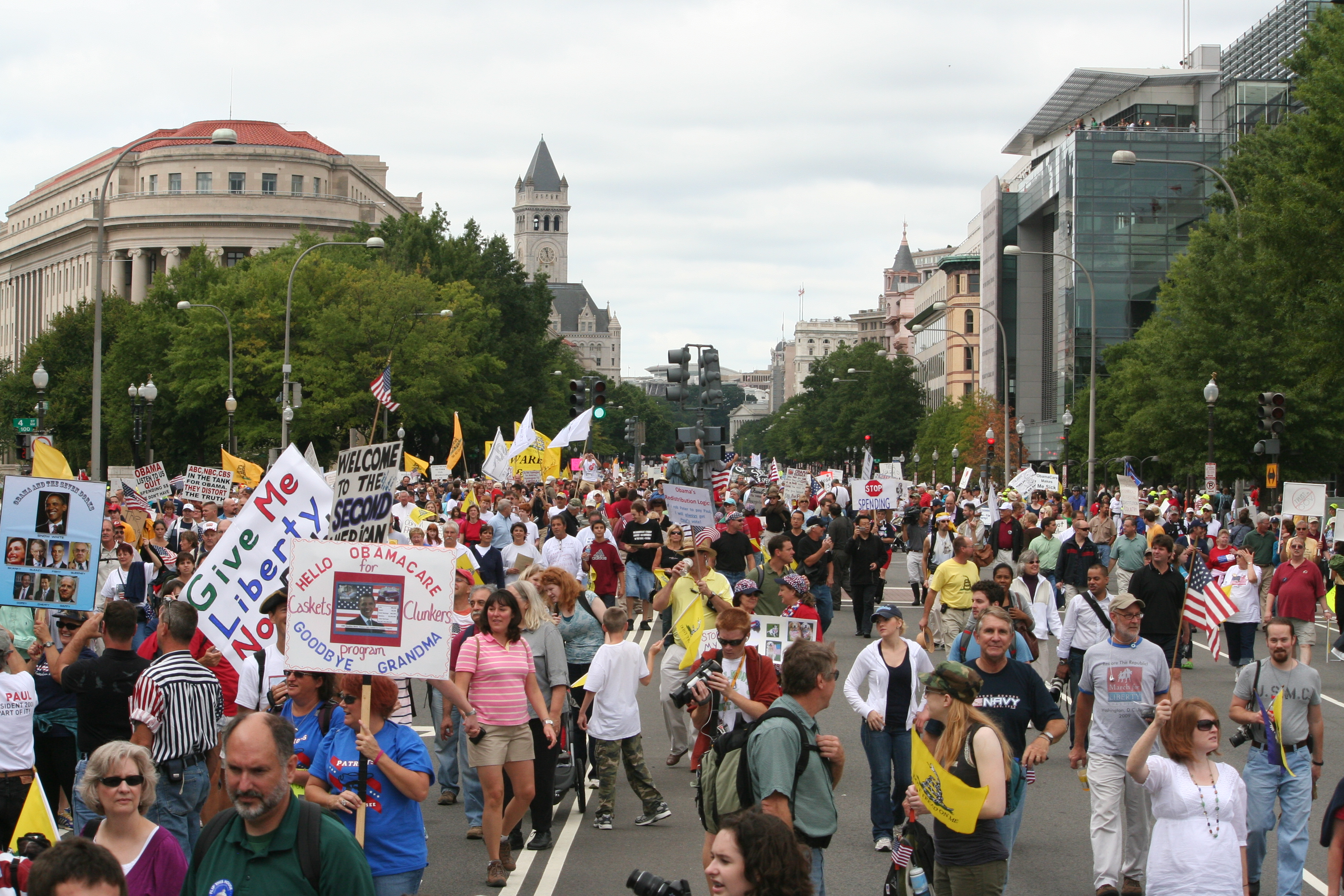 Protesters walking down Pennsylvania Avenue during the Taxpayer March on Washington.